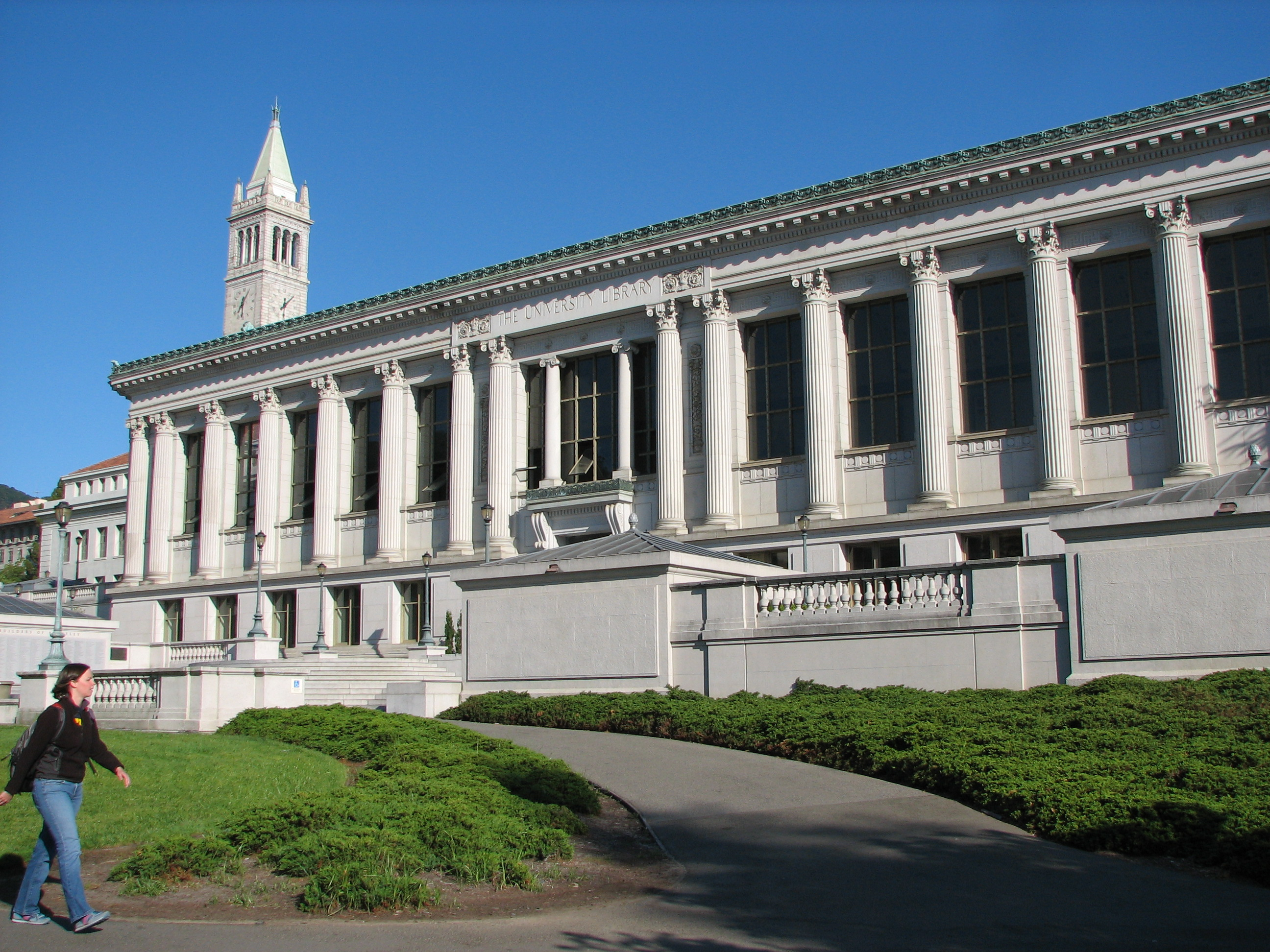 North-facing facade of the Doe Library at the University of California, Berkeley